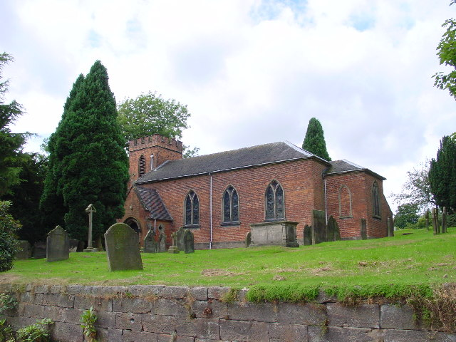 St Nicholas Church, Fulford. This church was built in 1825 on the same site as the previous church.